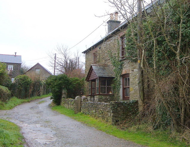 Home in Trelowia Some buildings are marked on the map as geographical features - and I reckon this is one of them. Trelowia had a strangely eerie deserted feel to the place even though all the properties were in good condition. This place may hold an array of second homes. A lovely place nonetheless, out of the way, away from roads, no through road and on a hill. I wouldn't mind a pad here further down the track.